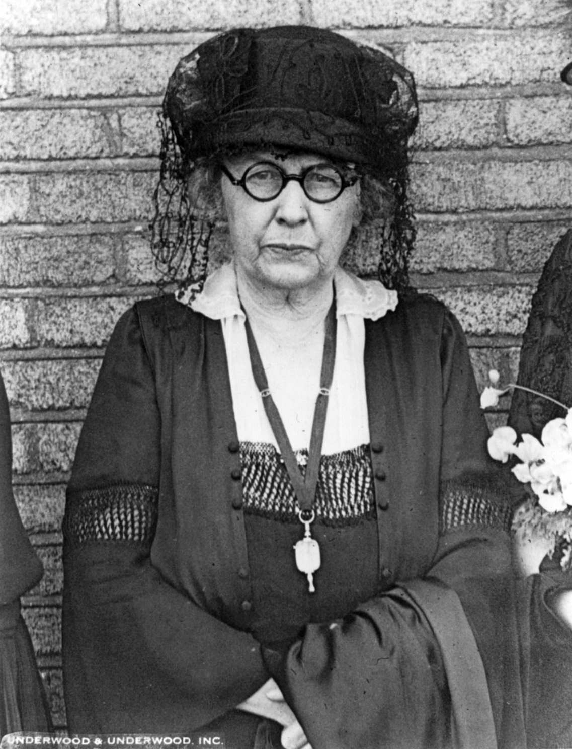 Harriot Eaton Stanton Blatch, American suffragette.